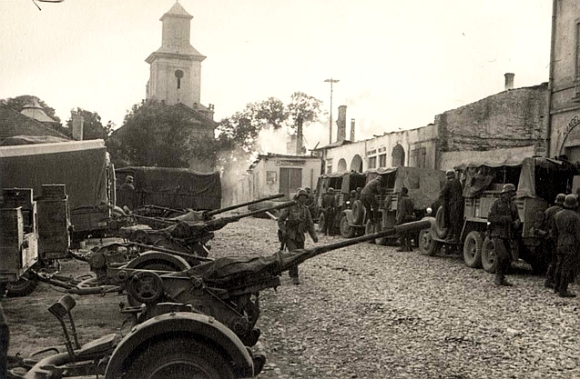 Das Gebirgsjäger-Regiment 98 der 1. Gebirgsdivision im polnischen Feldzug.